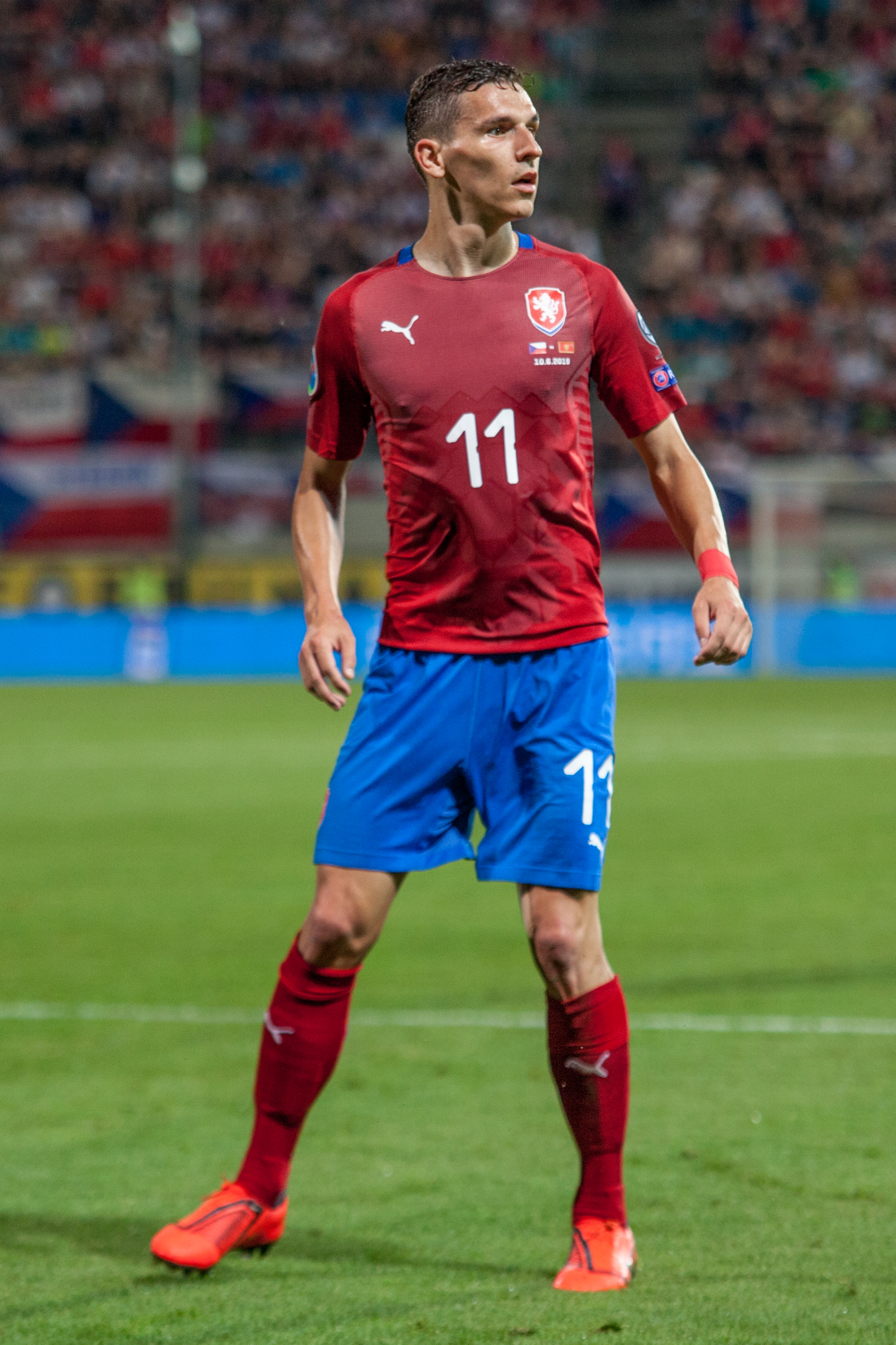 David Pavelka at EURO 2020 Qualifying Round Czech Republic-Montenegro (10/6/2019, Ander Stadium, Olomouc) Personality rights warningAlthough this work is freely licensed or in the public domain, the person(s) shown may have rights that legally restrict certain re-uses unless those depicted consent to such uses. In these cases, a model release or other evidence of consent could protect you from infringement claims.